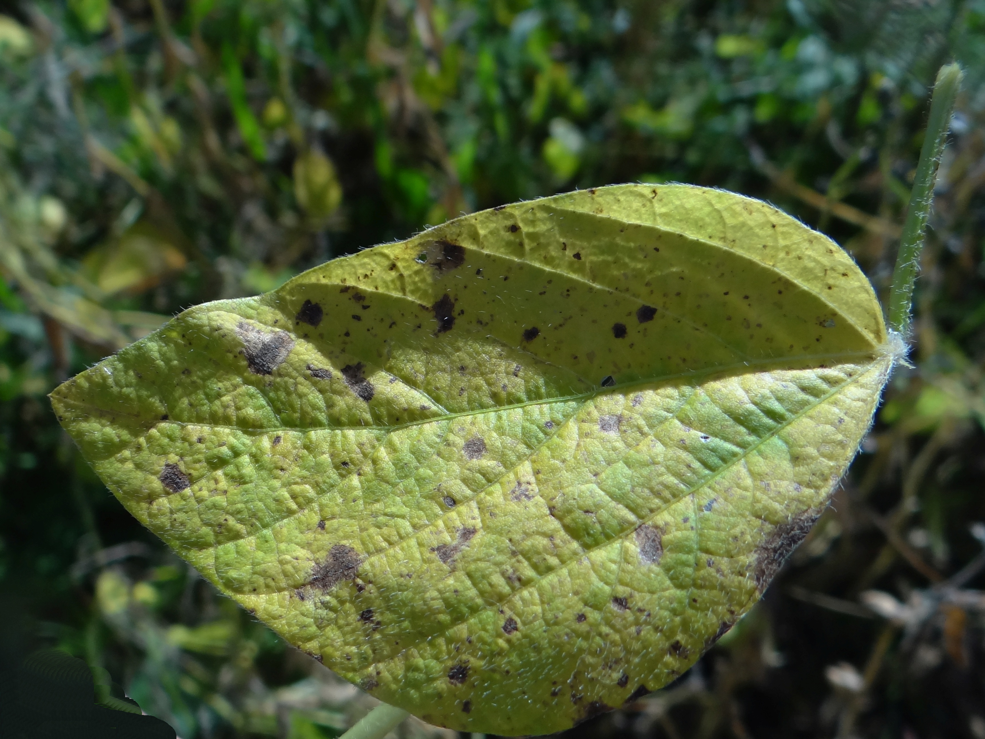 Didymella fabae on Vicia faba